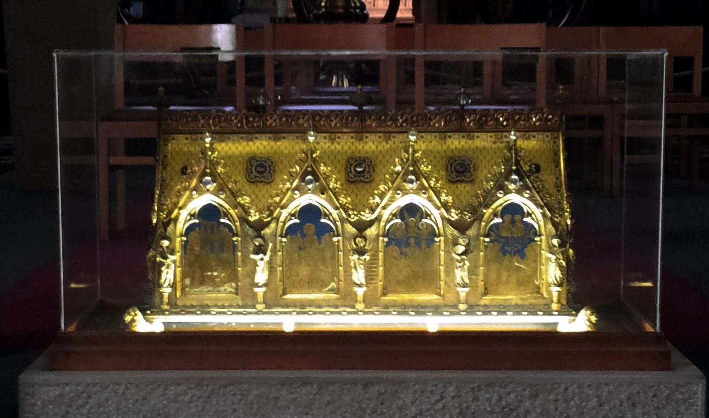 Onze-Lieve-Vrouwekerk, Sint-Truiden, Belgium. Reliquary chest of Saint Trudo(?).